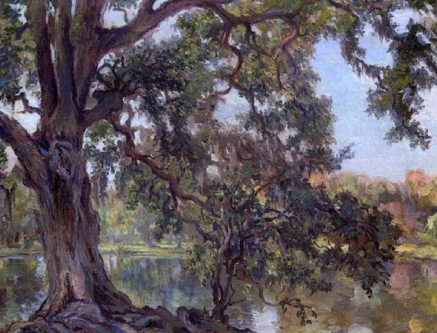 "Louisiana Live Oak, City Park, New Orleans, Louisiana"